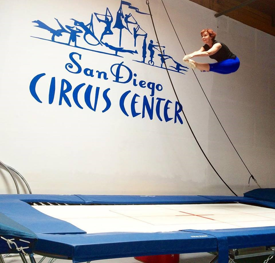 Dian Nissen jumping on a competition trampoline at the San Diego Circus Center in San Diego California